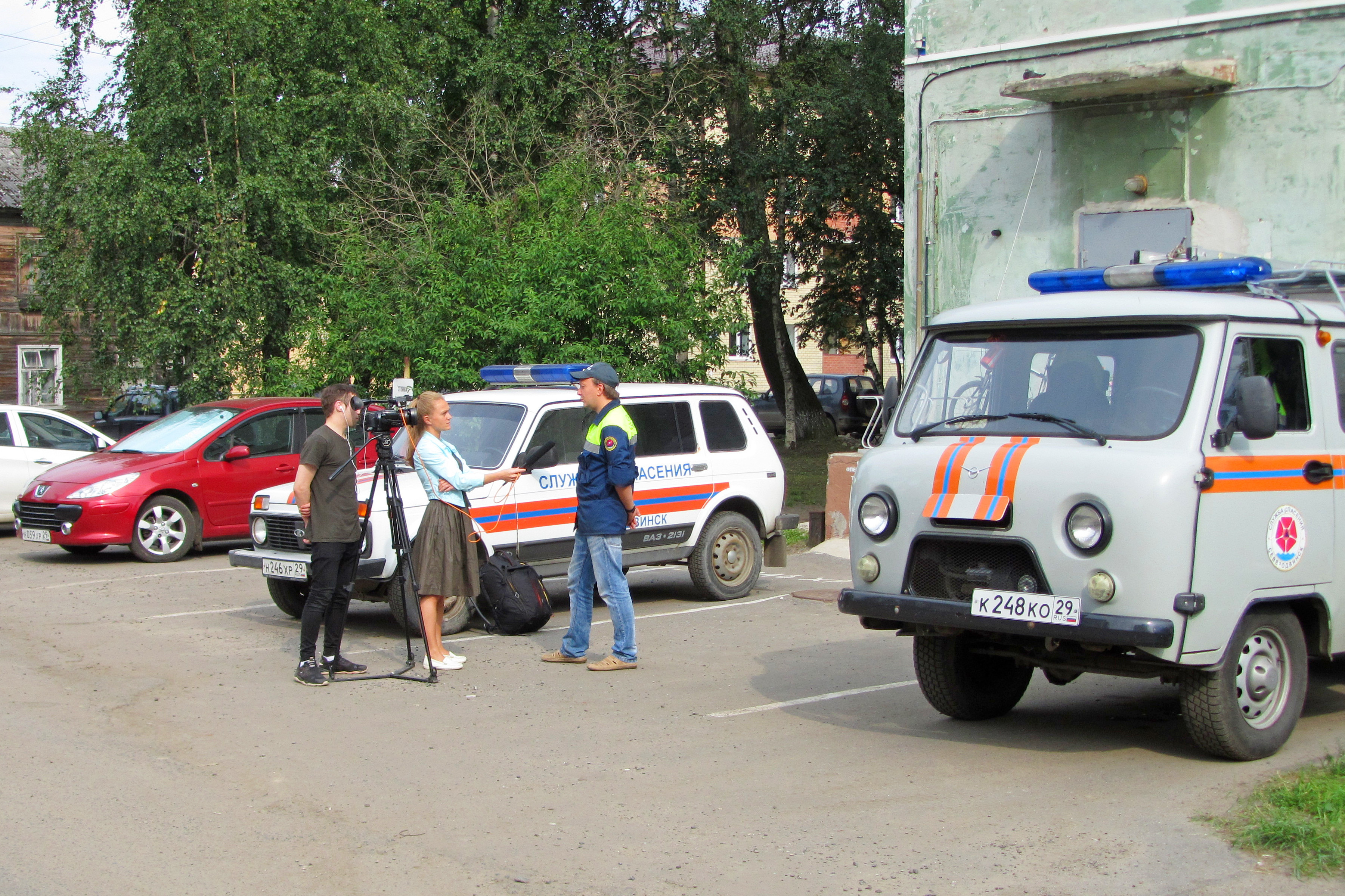 Lesnaya Street, Severodvinsk